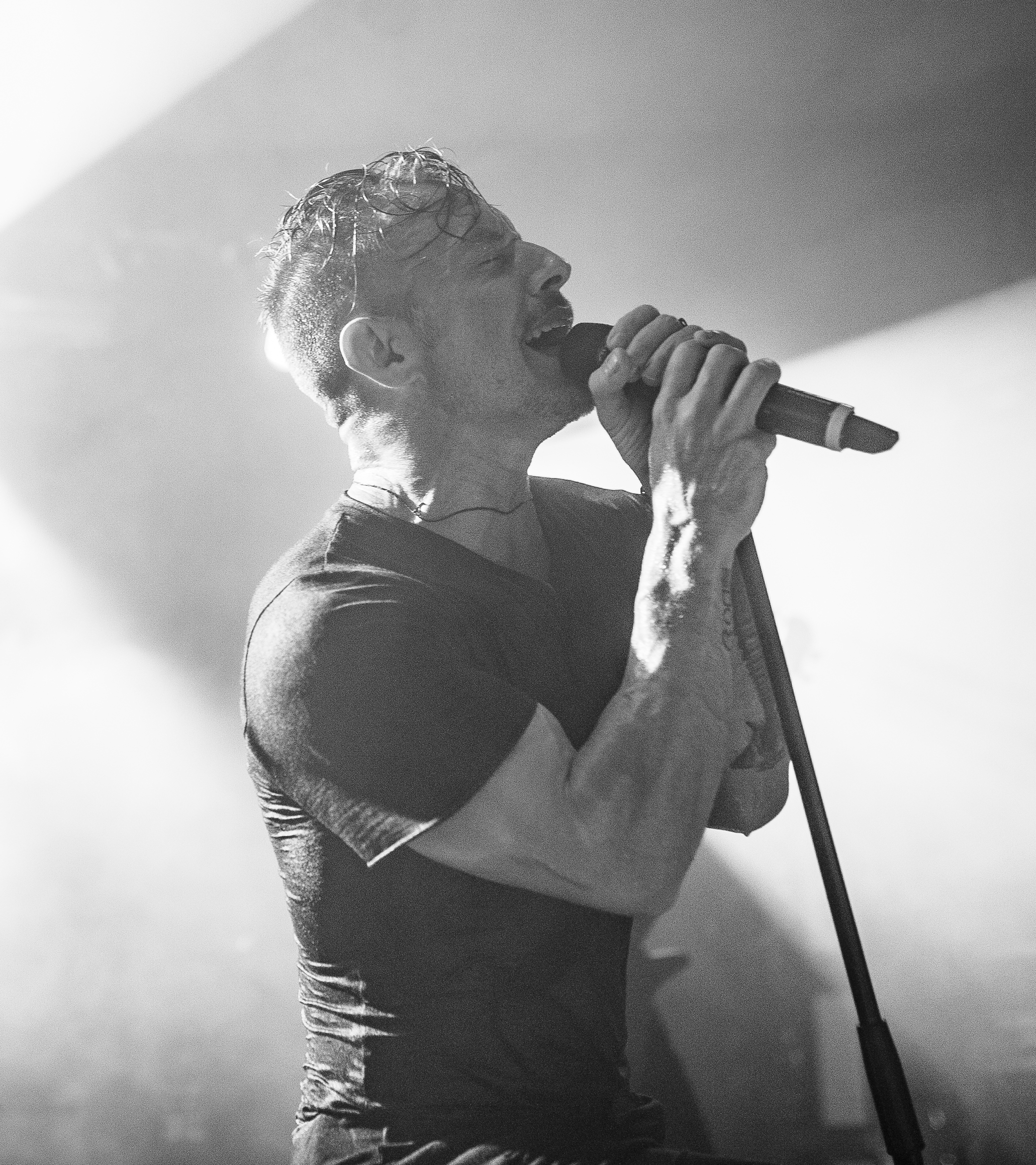 The Dillinger Escape Plan during their final tour in Europe. Last ever show in Europe, Leipzig, Germany 2017.